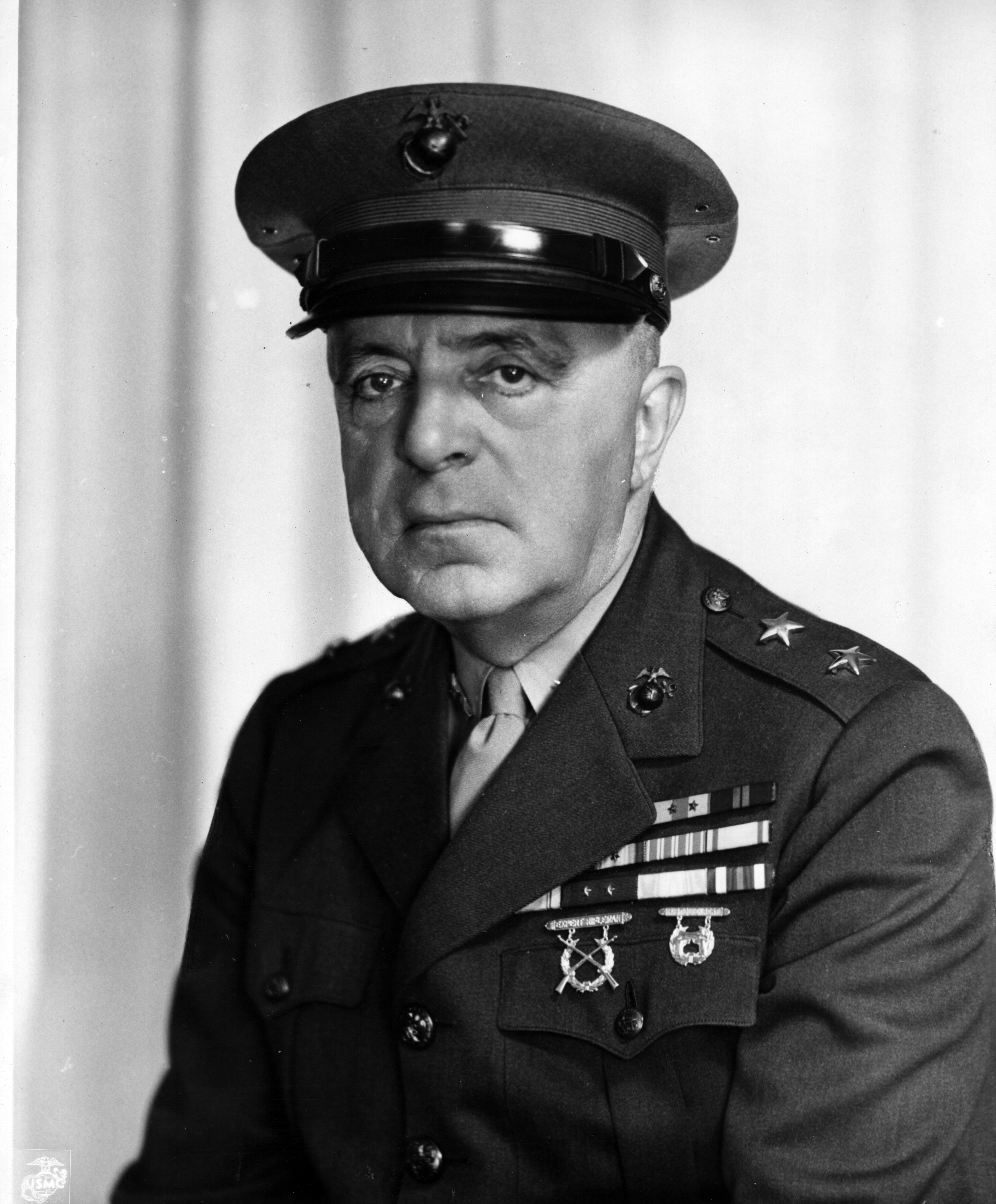 John Marston VI (August 3, 1884 - November 25, 1957) was an officer in the United States Marine Corps with the rank of Major General, who is most noted as Commanding General of 1st Provisional Marine Brigade during the Occupation of Iceland and later as Commanding General of 2nd Marine Division at Guadalcanal.